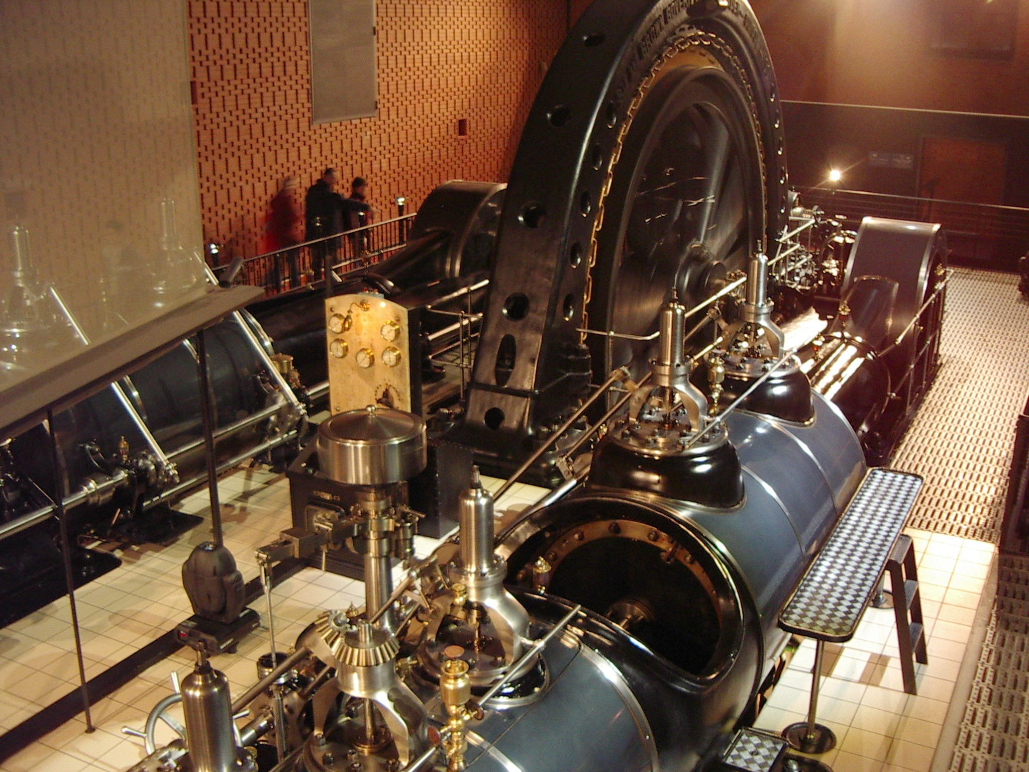 Sulzer steam engine and Brown-Boveri alternator from 1901 in the Electropolis museum in Mulhouse. This alternator provided electricity for the Dollfus-Mieg and Company factory in Mulhouse.